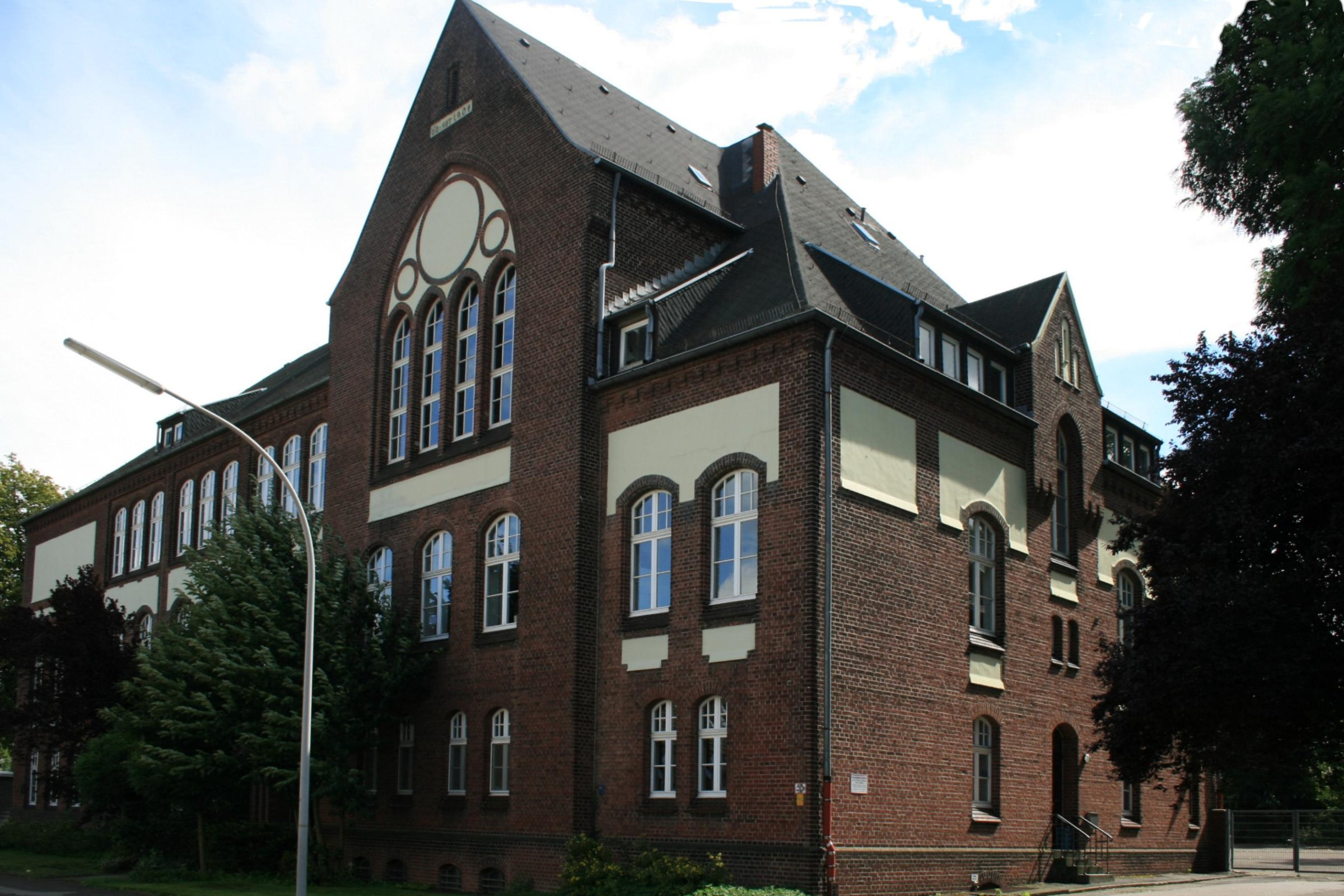 Cultural heritage monument No. W 033 in Mönchengladbach